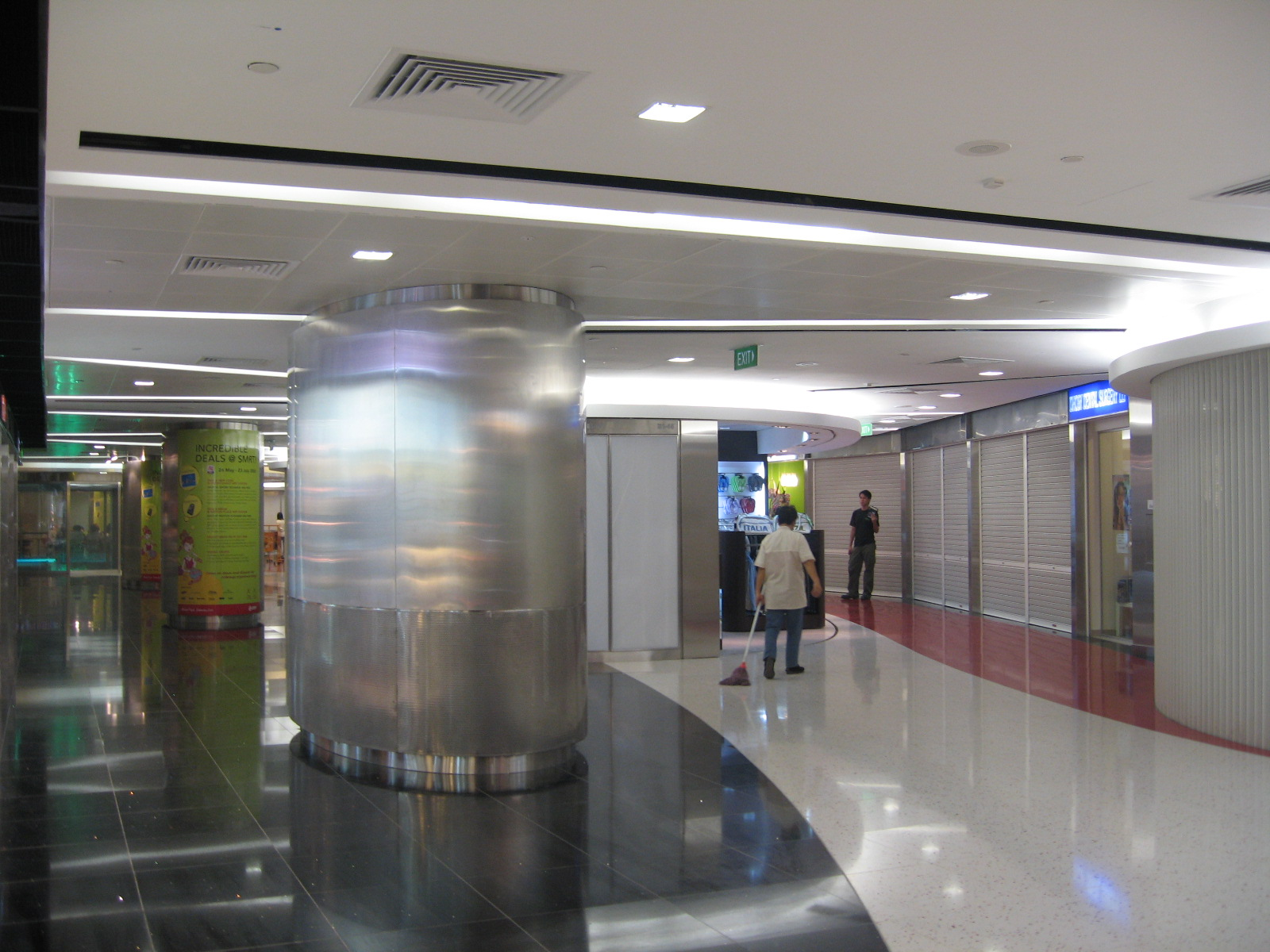 Dhoby Xchange.